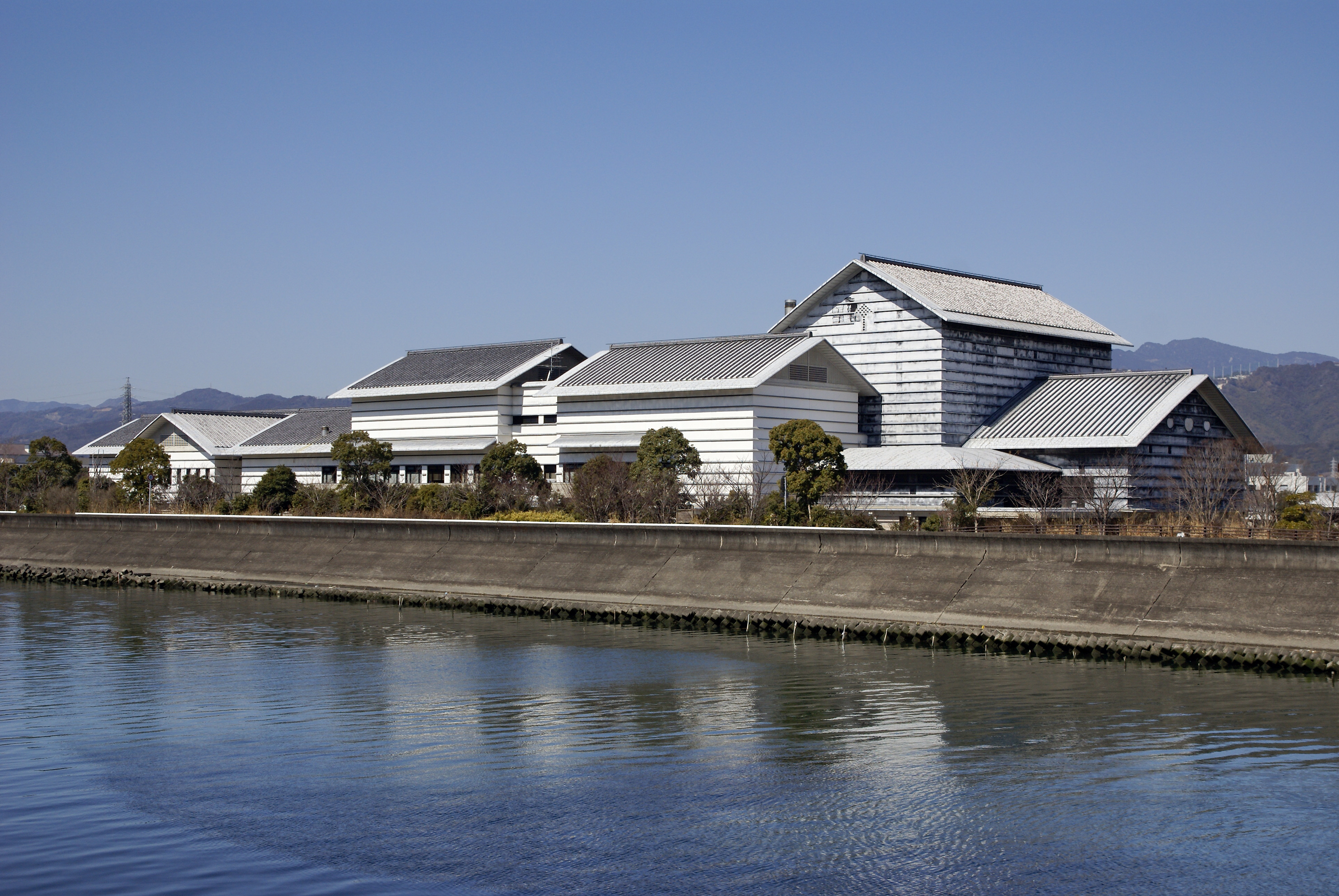 The Museum of Art, Kochi in Kochi, Kochi prefecture, Japan